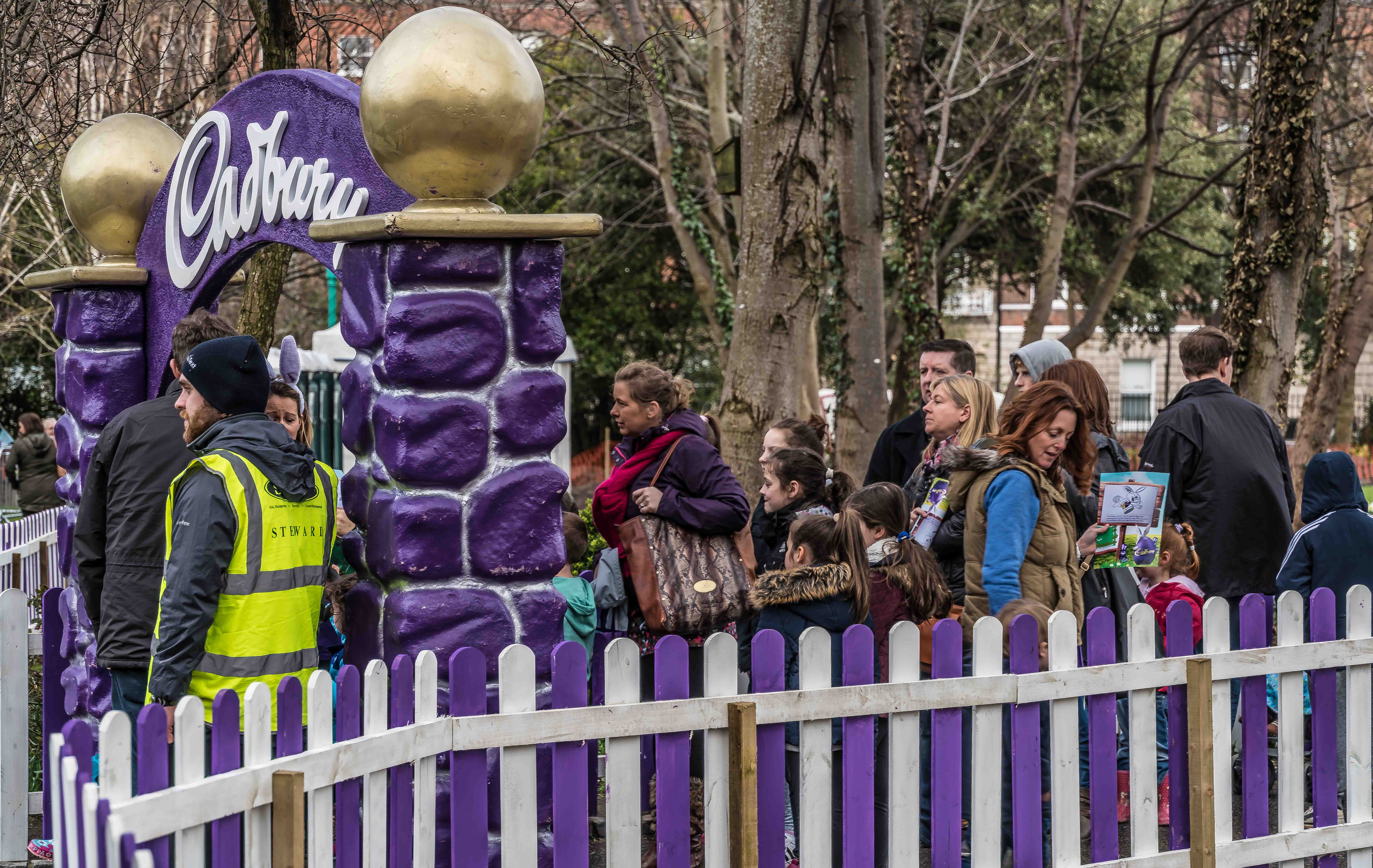 Today I thought that it might be a good idea to photograph scenes and events relating to Easter so I visited Merrion Square and I discovered that Cadbury had organised a family friendly Easter Egg hunt in aid of a charity but something caught my attention by its absence. There were all sorts of posters, notices, balloons and signs but nowhere did I see the word ‘Easter’. I checked online and Barnados described the event as “Cadbury Easter Egg Hunt in Support of Barnardos!” while Cadbury described the event as “Join The Egg Hunt Fun This Easter”. Not a huge difference but then I came across the following: Cadbury's, a leading chocolate manufacturer, is denying that the word “Easter” has been dropped from the packaging of their famous chocolate eggs this year in an attempt to market their products in a more secular way. A spokesperson from Cadbury’s has explained to the media that “Easter” was not prominently displayed on the chocolate egg packaging because they felt that “Easter” was implied by the product itself, denying that it was down to political or religious correctness. “Most of our Easter eggs don’t say Easter or egg on the front as we don’t feel the need to tell people this – it is very obvious through the packaging that it is an Easter egg,” said the spokesperson. 2016 Dublin Easter Rising centenary parade